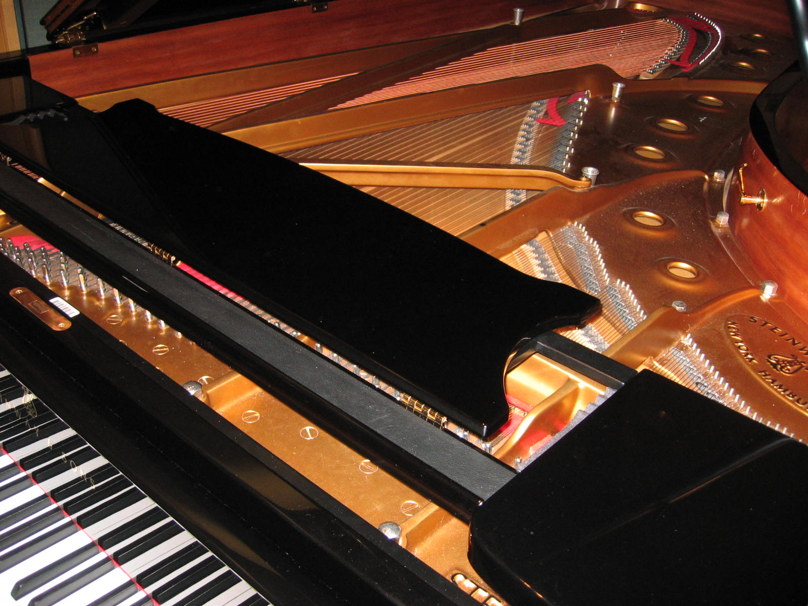 Piano detail